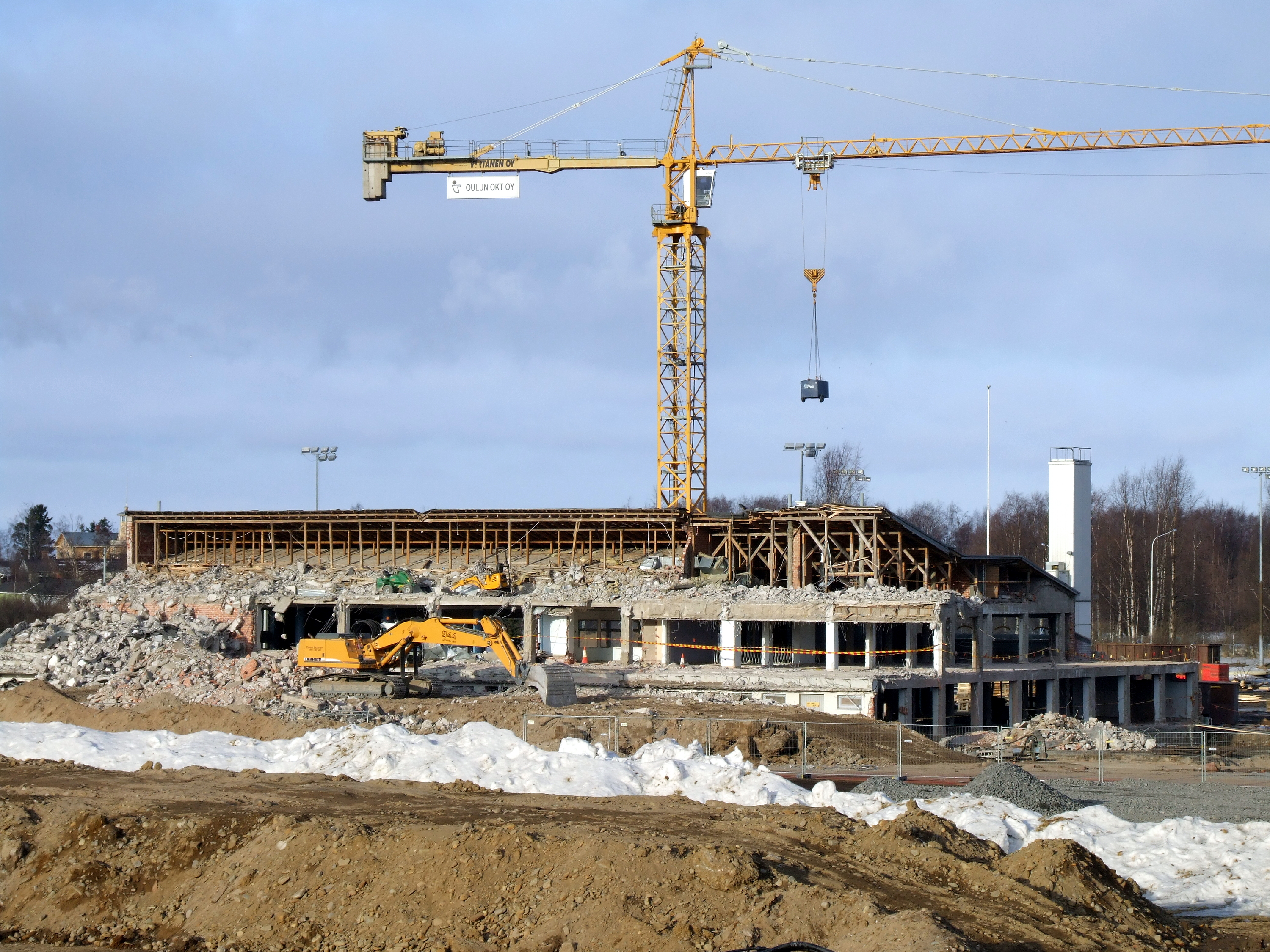 Redeveloping of Raatti Sports Centre in Oulu, Finland.